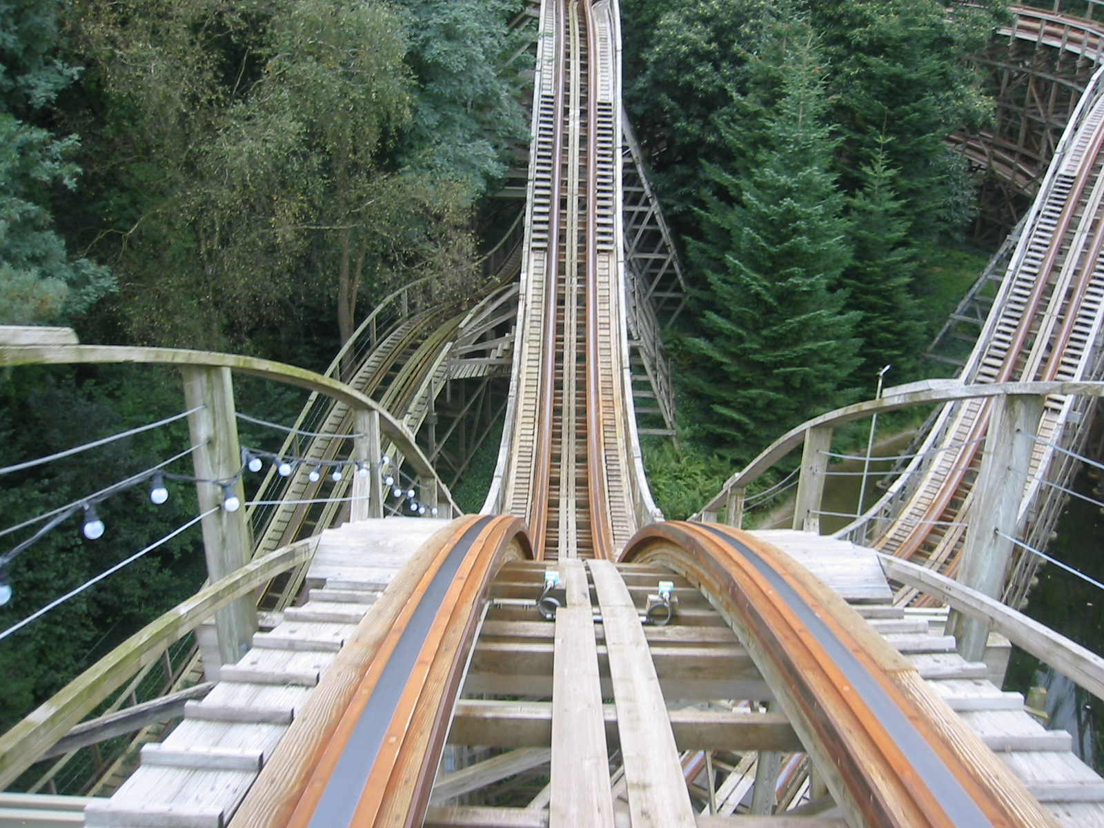 This is a view of the top of the rollercoaster Pegasus in the Efteling.